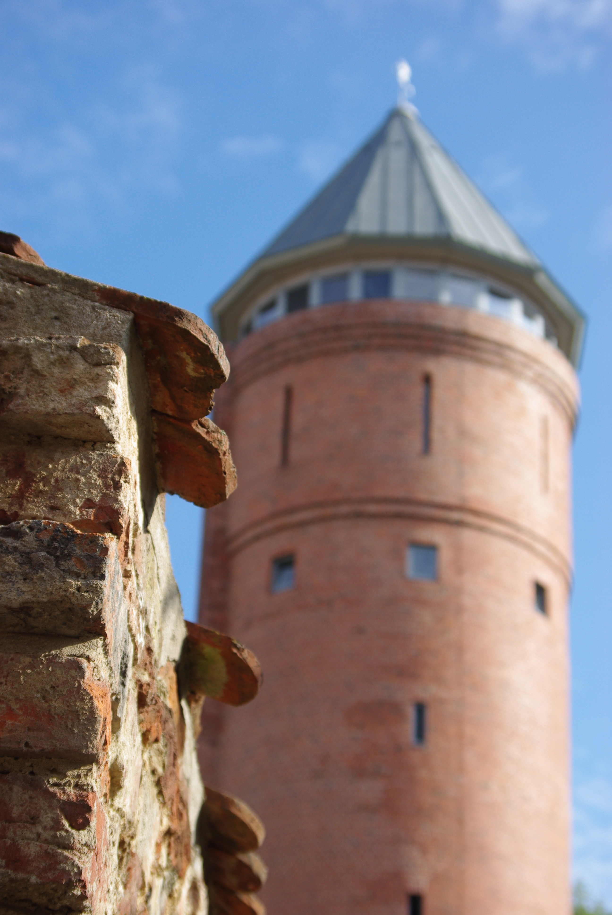 Water tower and part of the old town wall